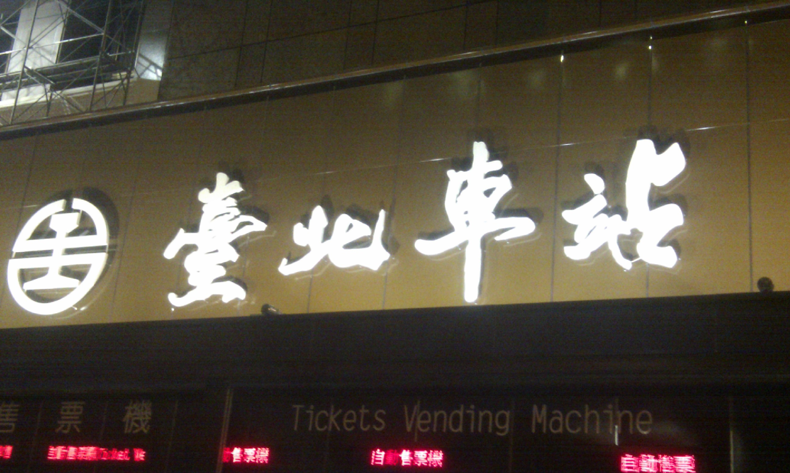 Inscription of Taipei Station by Yang-tze Dong, a Taiwanese famous calligrapher.